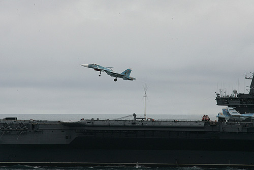 BARENTS SEA. Military exercises of the Northern Fleet.